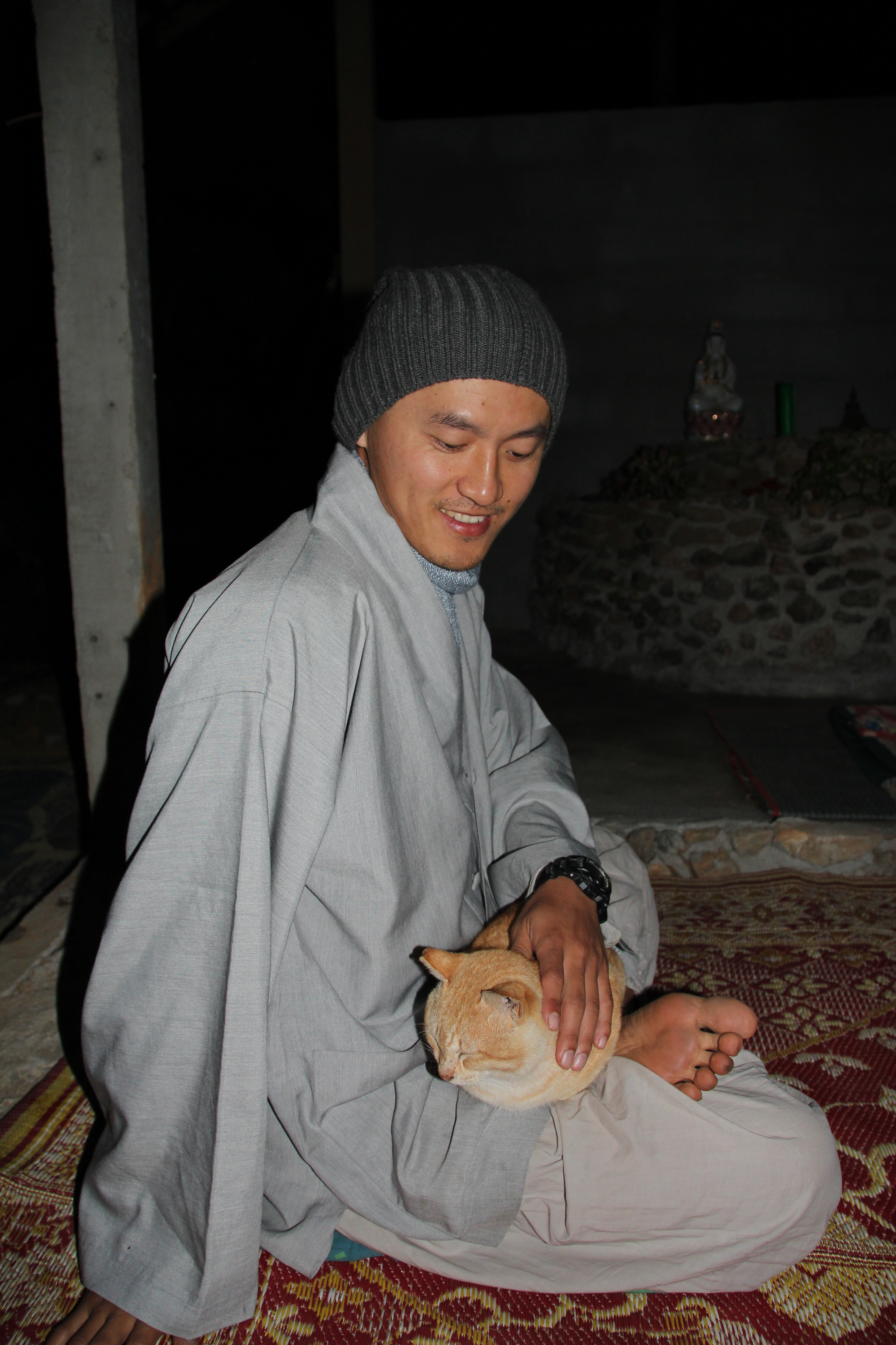 Wonje